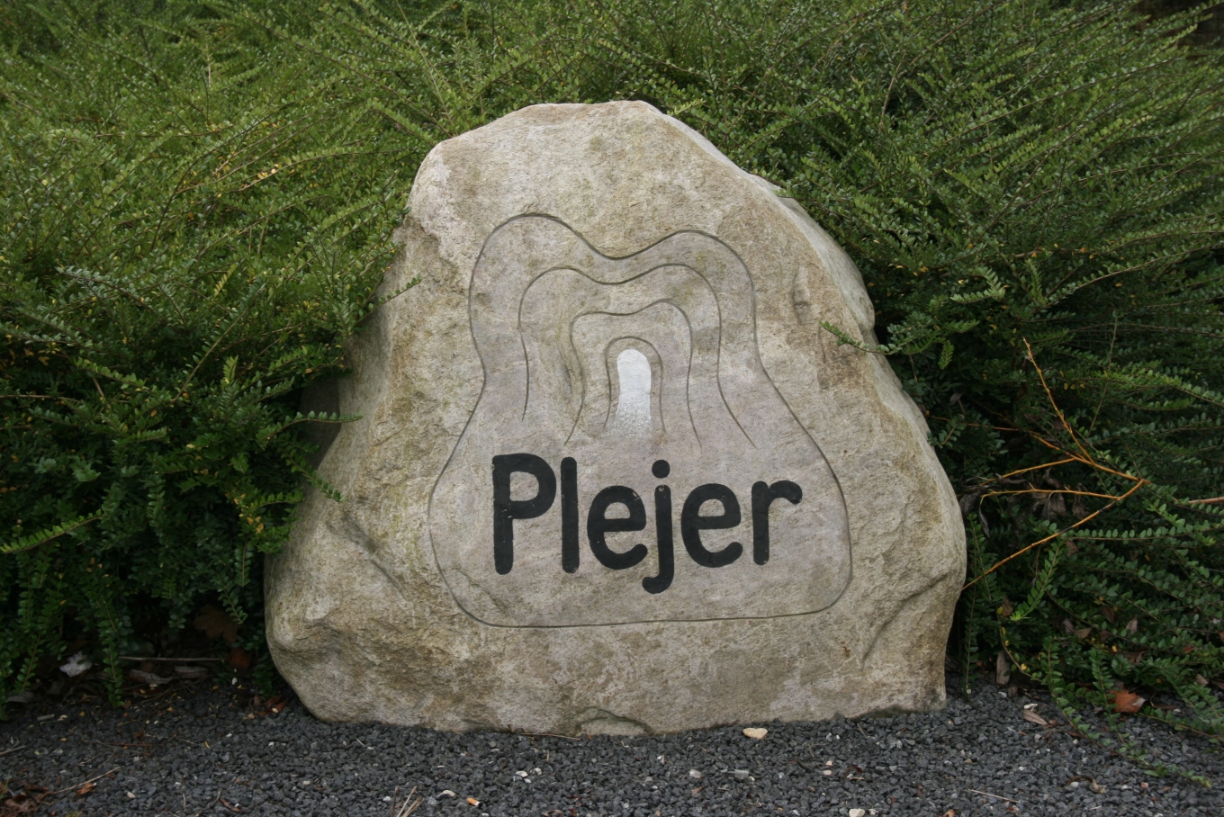 Humorous inscription on a large boulder.